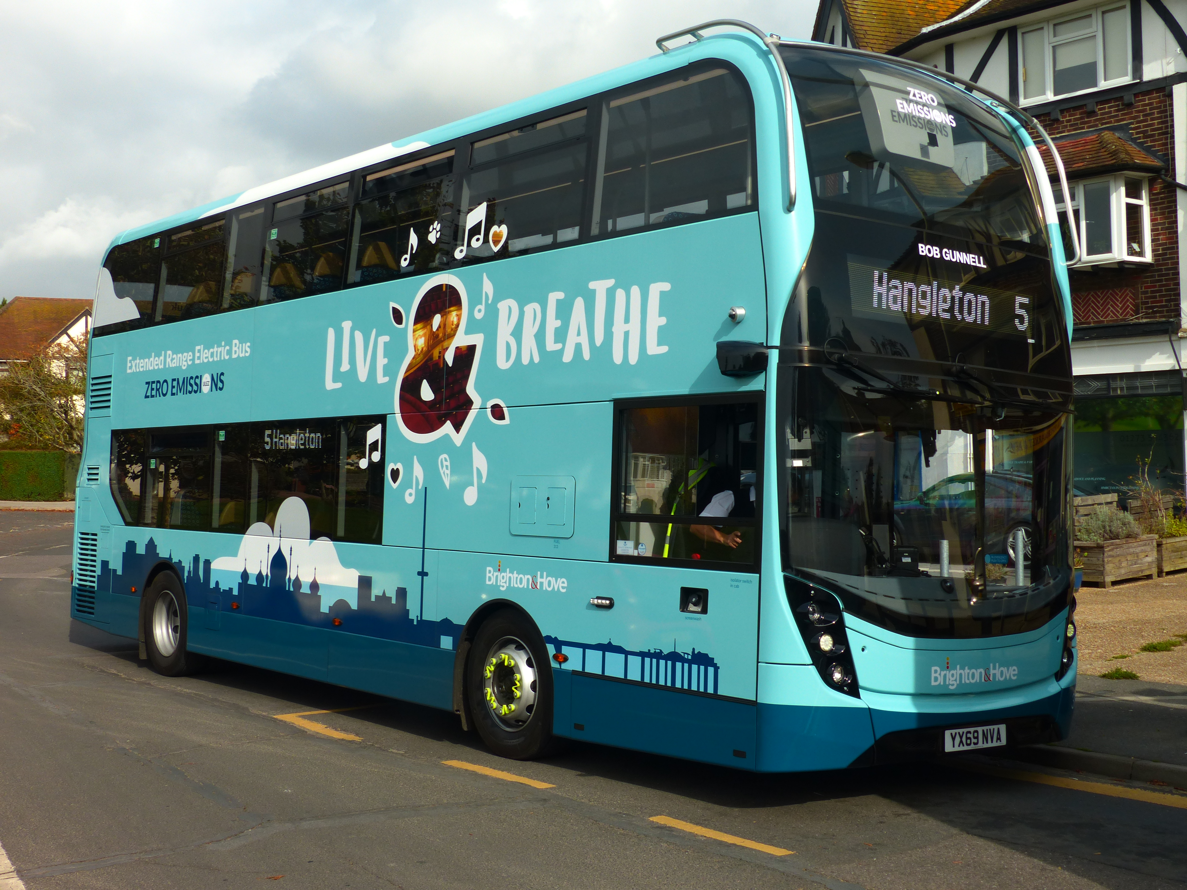 A Brighton & Hove Buses hybrid bus introduced in October 2019, and named after Robert Gunnell